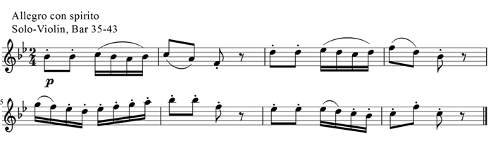 Joseph Haydn, Sinfonia Concertante, Allegro con spirito, Bar 35-42, Violin